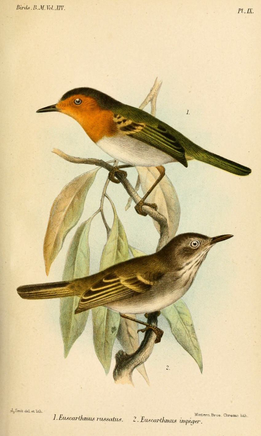 Euscarthmus russatus = Poecilotriccus russatus Ruddy Tody-flycatcher(above); and Euscarthmus impiger = Hemitriccus margaritaceiventer impiger Pearly-vented Tody-tyrant ssp. (below)